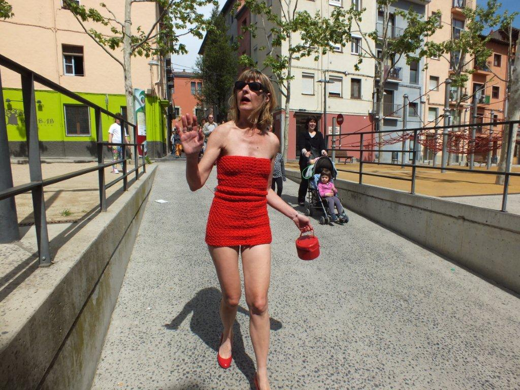 Contemporary dance in Olot, Sismograf dance festival